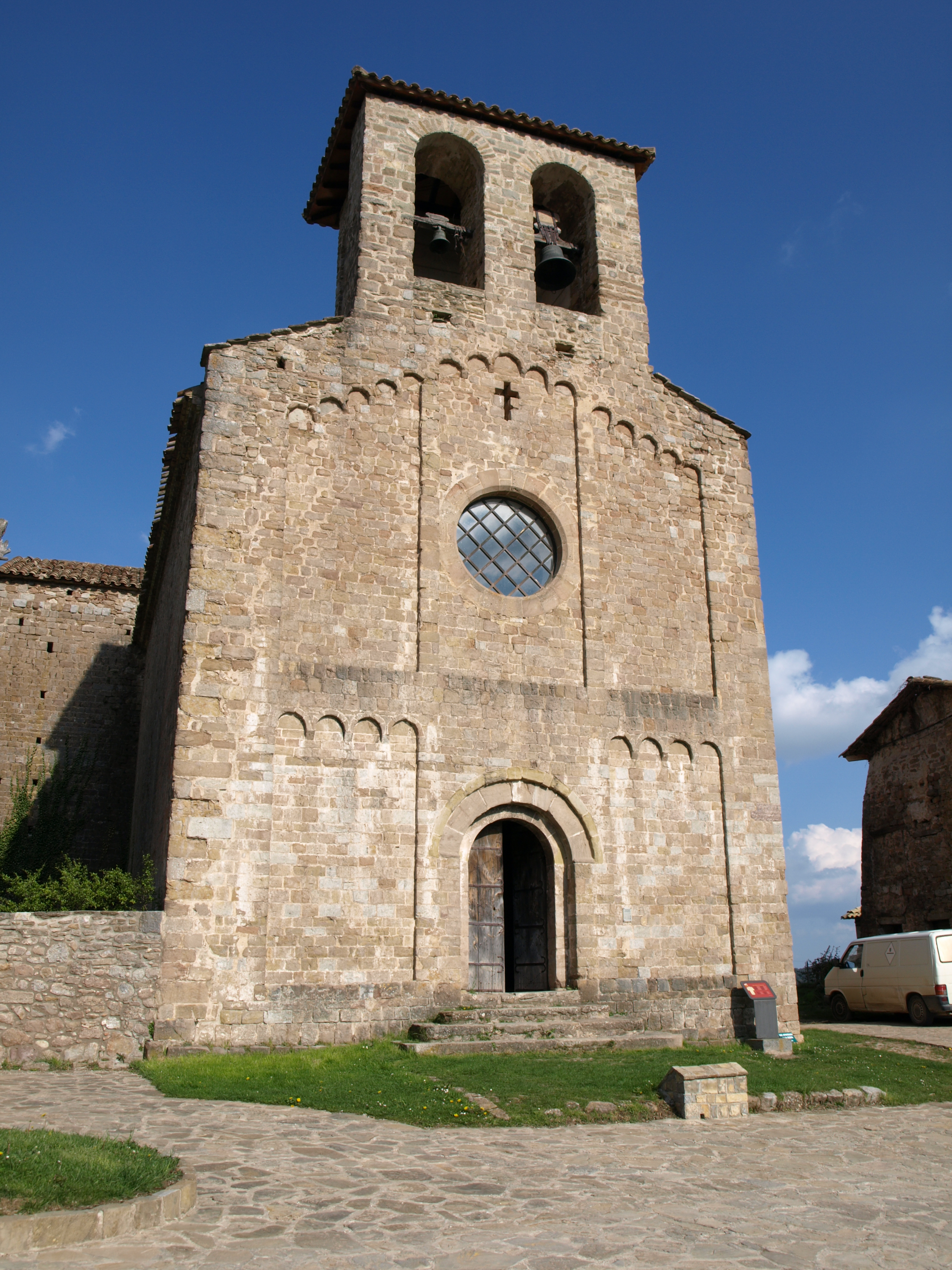 Sant Jaume de Frontanyà church, main wall view